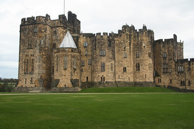 Alnwick Castle State apartments from the outer bailey at Alnwick Castle - backdrop for Hogwarts in the Harry Potter films.